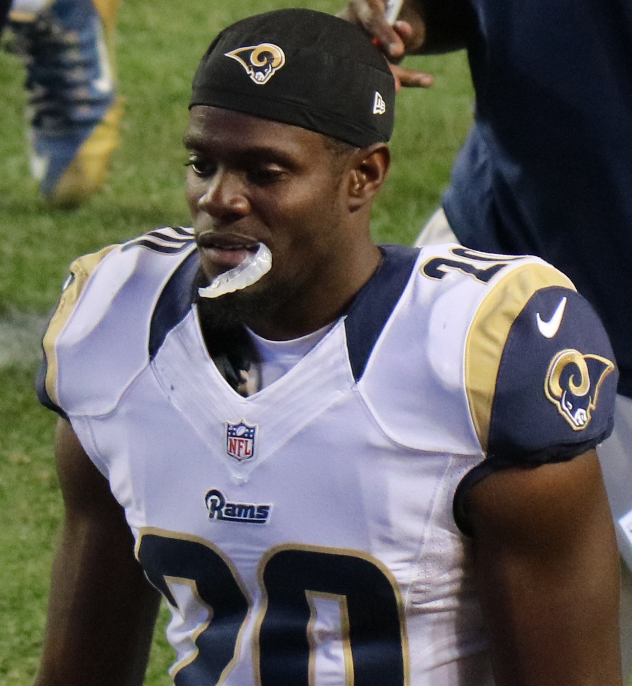 Lamarcus Joyner, a player on the National Football League.